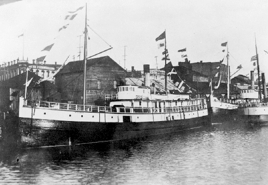 The steamer Willapa docked in Victoria harbor.